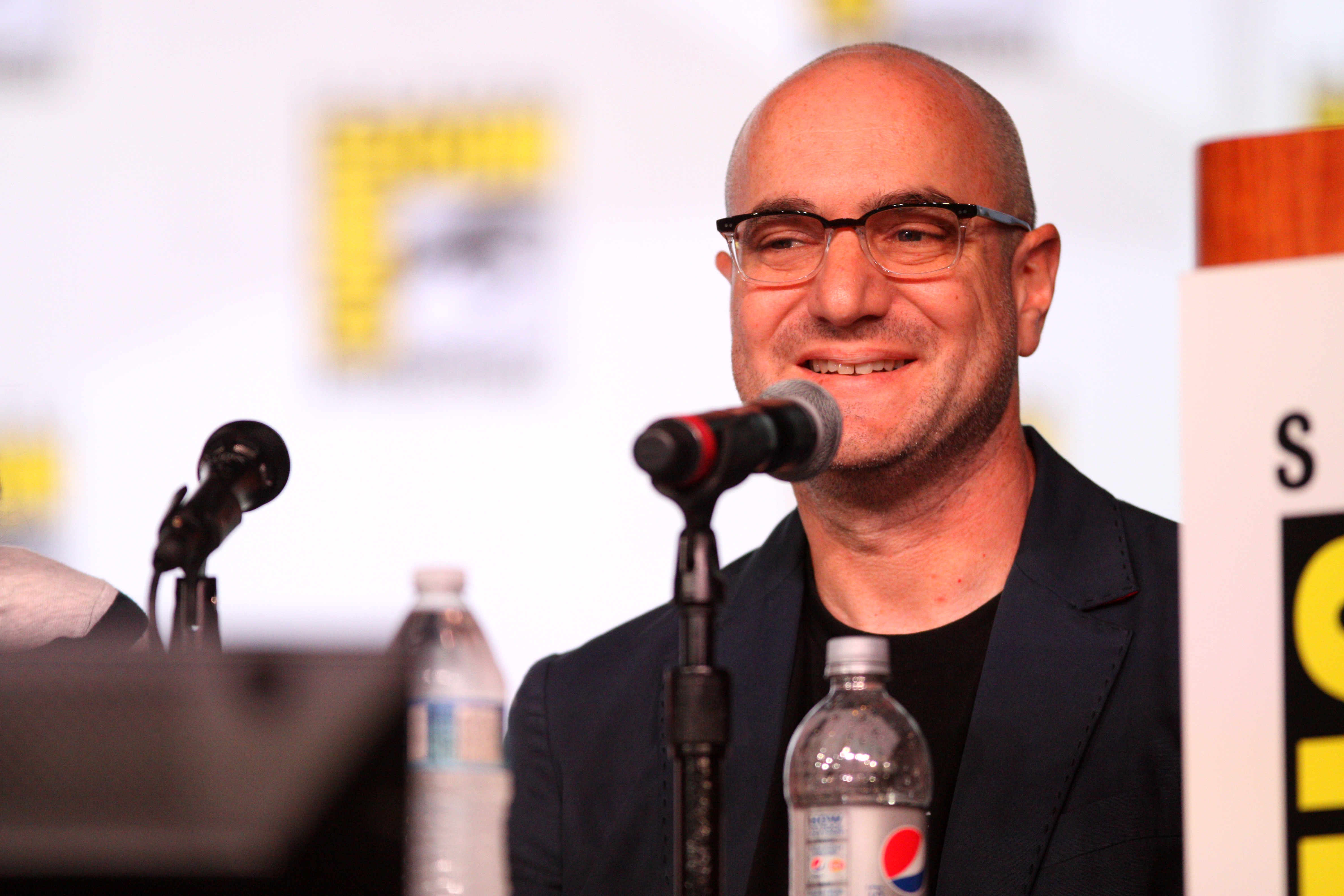 Andy Bobrow speaking at the 2012 San Diego Comic-Con International in San Diego, California.